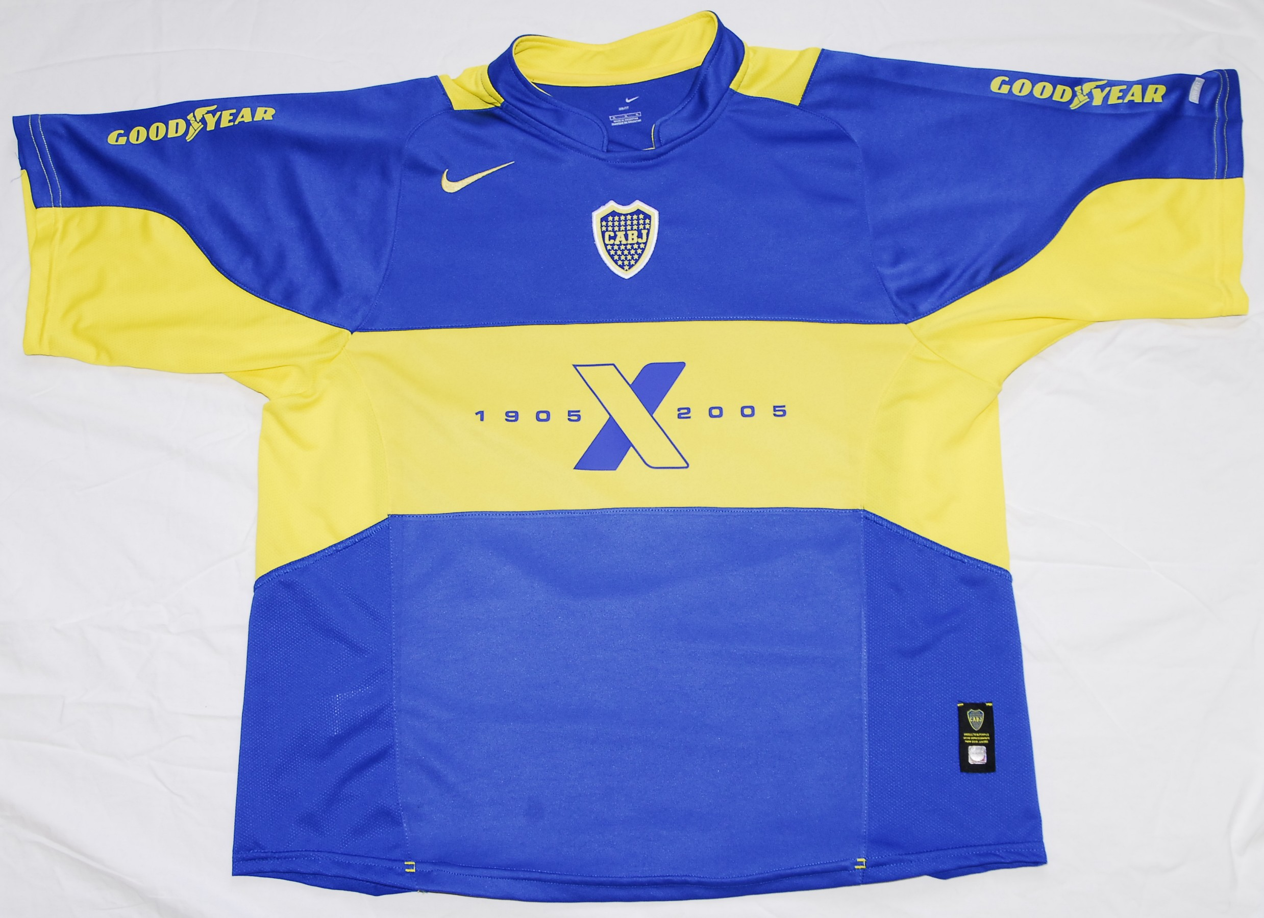 Boca Juniors 2005 Home Jersey